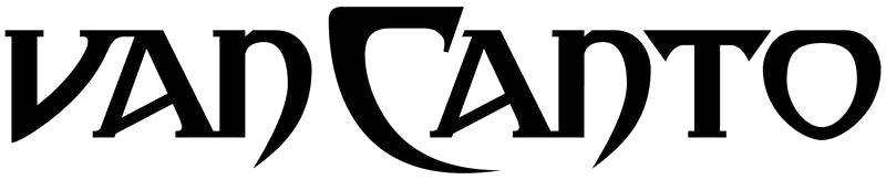 Van Canto Logo